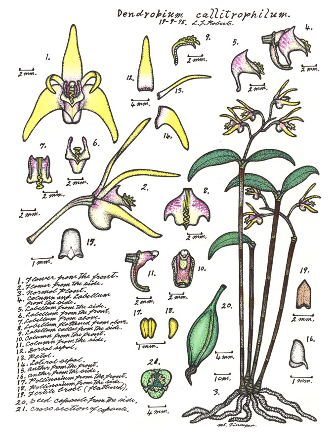 This image is one of a series by Lewis Roberts